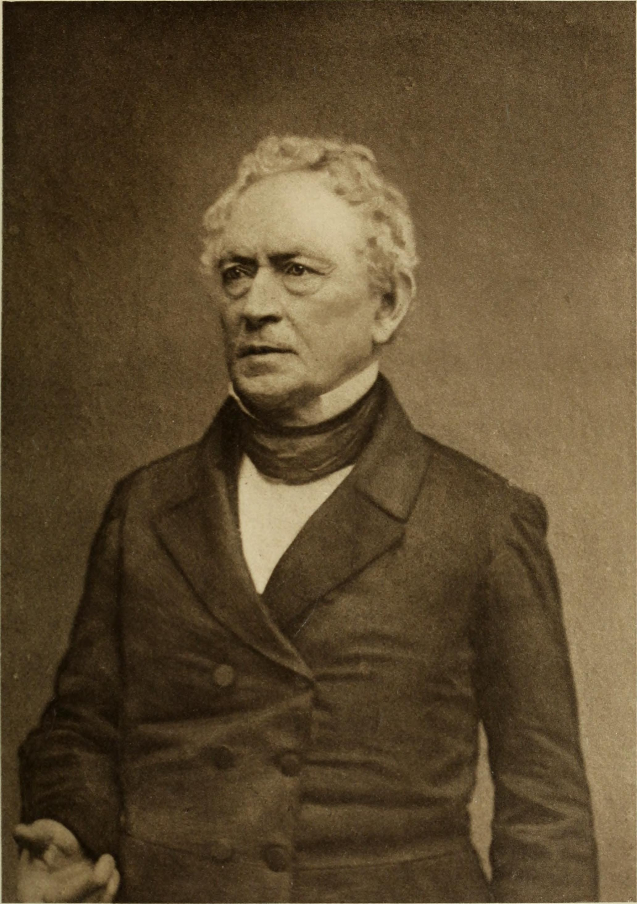 Edward Everett Title: The Public Library of the city of Boston : a history Year: 1911 (1910s) Authors: Wadlin, Horace Greeley, 1851-1925 Subjects: Boston Public Library Publisher: Boston : Printed at the Library and published by the Trustees Caption: Edward Everett.Trustee of the Library, 1852-1864. President of the Board, 1852-1864. Born, Dorchester (Mass.), April 11. 1794; died, Boston, January 15, 1865. Harvard College, class of 1811; clergyman, Boston, 1813; appointed professor of Greek at Harvard, 1814; Representative in Congress, 1825-1835; Governor of Massachusetts, 1836-1839; Minister to Great Britain, 1840-1845; President of Harvard College, 1846-1849; Secretary of State (U. S.), 1852; Senate (U. S.), 1853-1854.